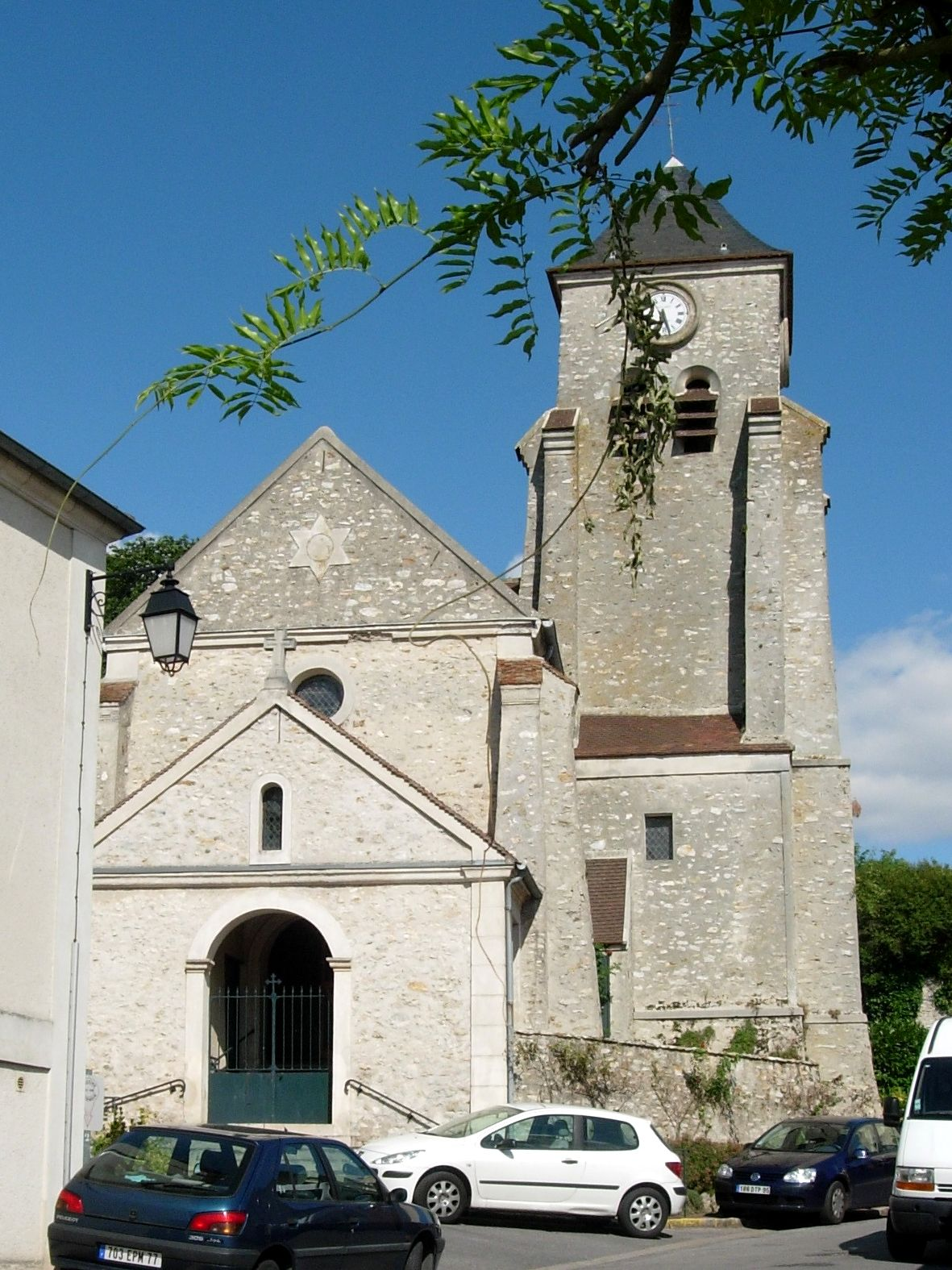 eglise de Montgé en Goele